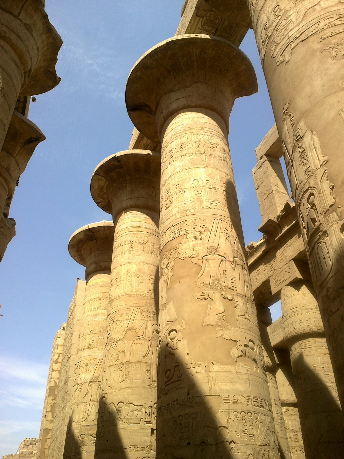 Egypte Louxor Temple Karnak Grande Salle Hypostyle